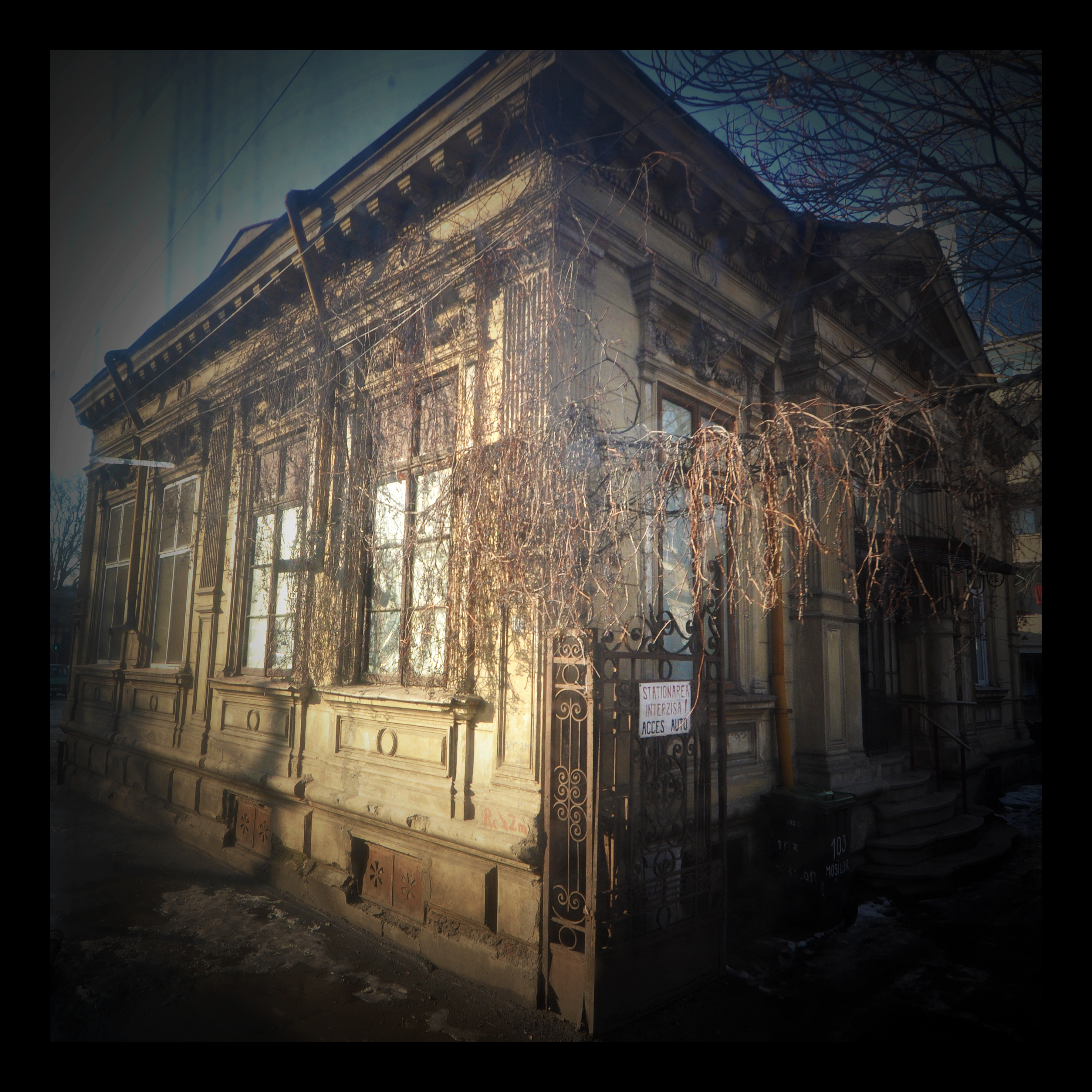 House on Calea Mosilor, no. 103, Bucharest "Calea Moşilor" architectural ensemble